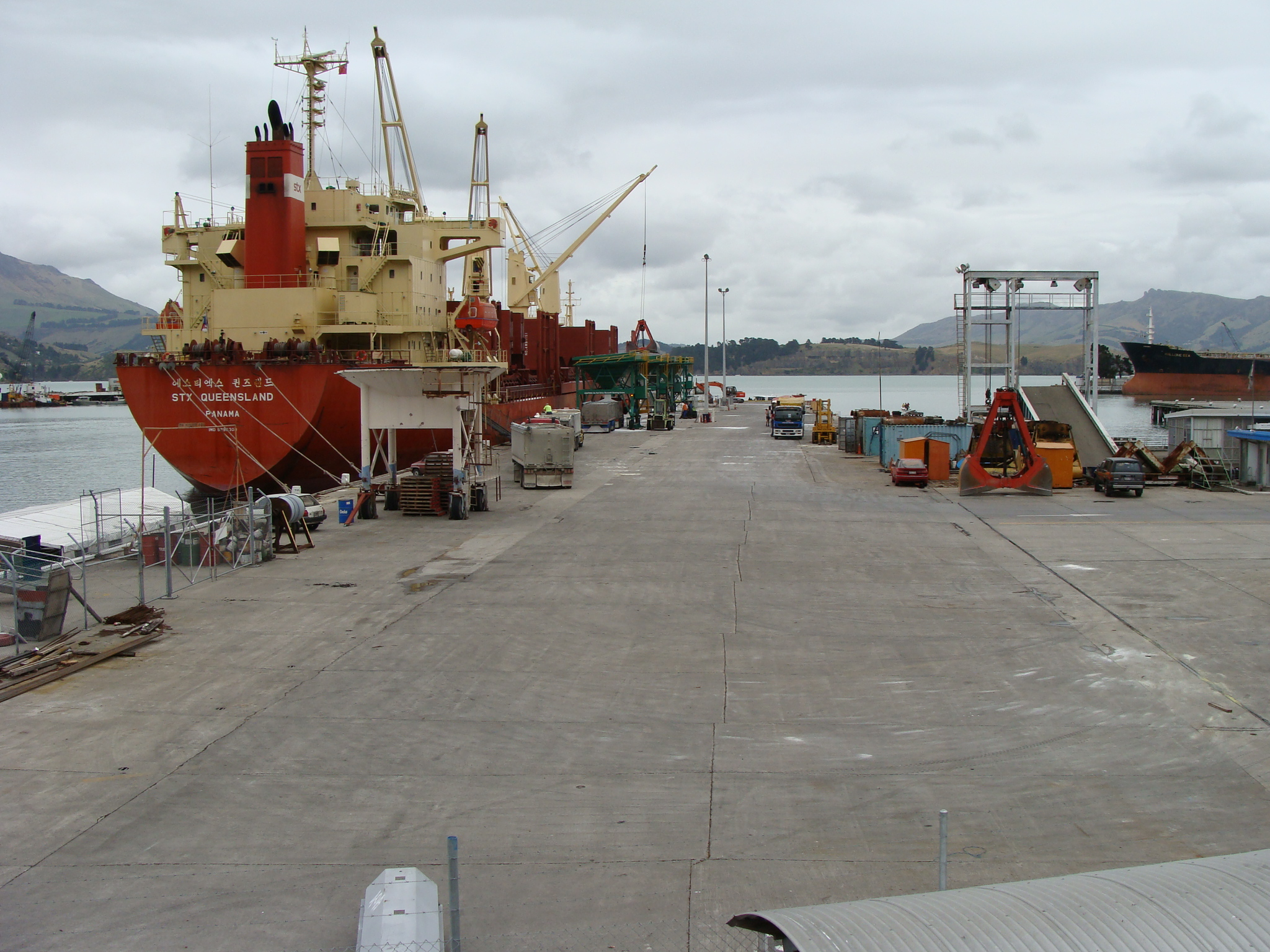 Wharf no. 2 at Lyttelton Port.